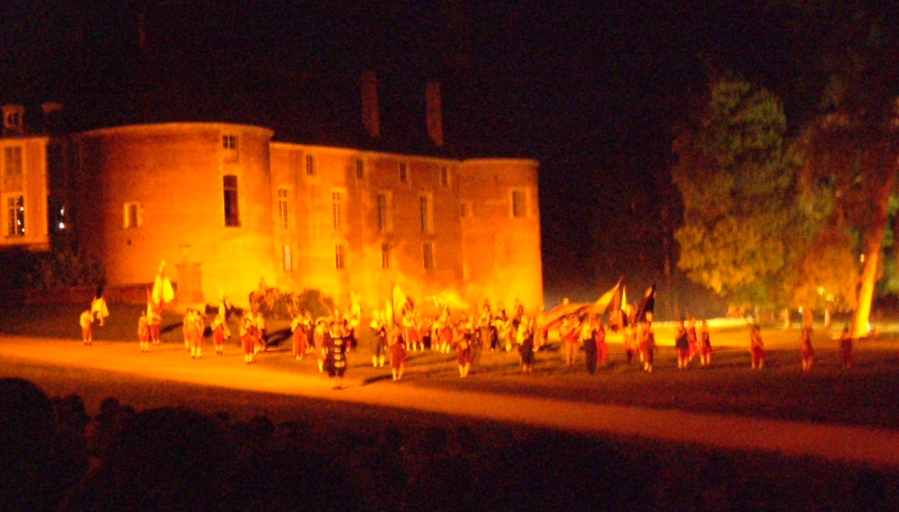 Saint-Fargeau, Yonne, Burgundy, FRANCE